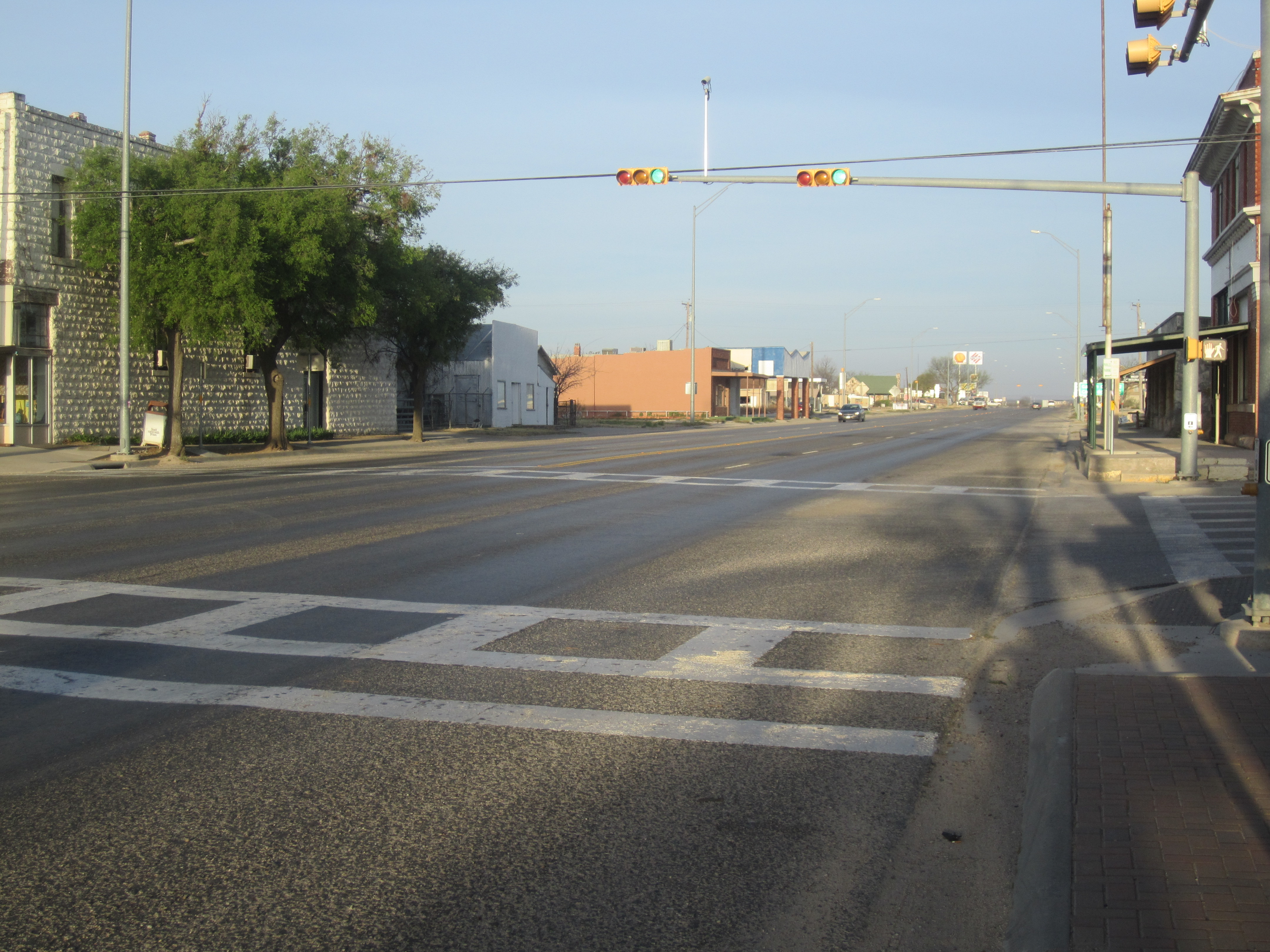 I took photo with Canon camera in Sterling City, TX.